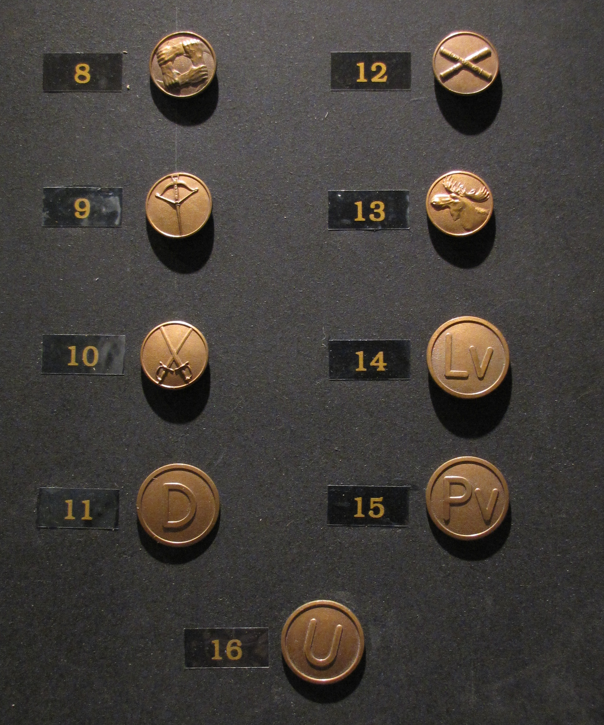 Unit insignia of Swedish Volunteer Corps (Svenska Frivilligkåren) from Winter War: 8. Svenska frivilligkåren collar insignia 9. I group (I. stridsgruppen) 10. III group (III. stridsgruppen) 11. Depot 12. Headquarters 13. II group (II. stridsgruppen) 14. Air defense (Luftvärnskompaniet) 15. Anti-tank defense (Pansarvärnsplutonen) 16. Supply units Photographed in the "Winter War - 70 years" exhibition in the Military Museum of Finland.